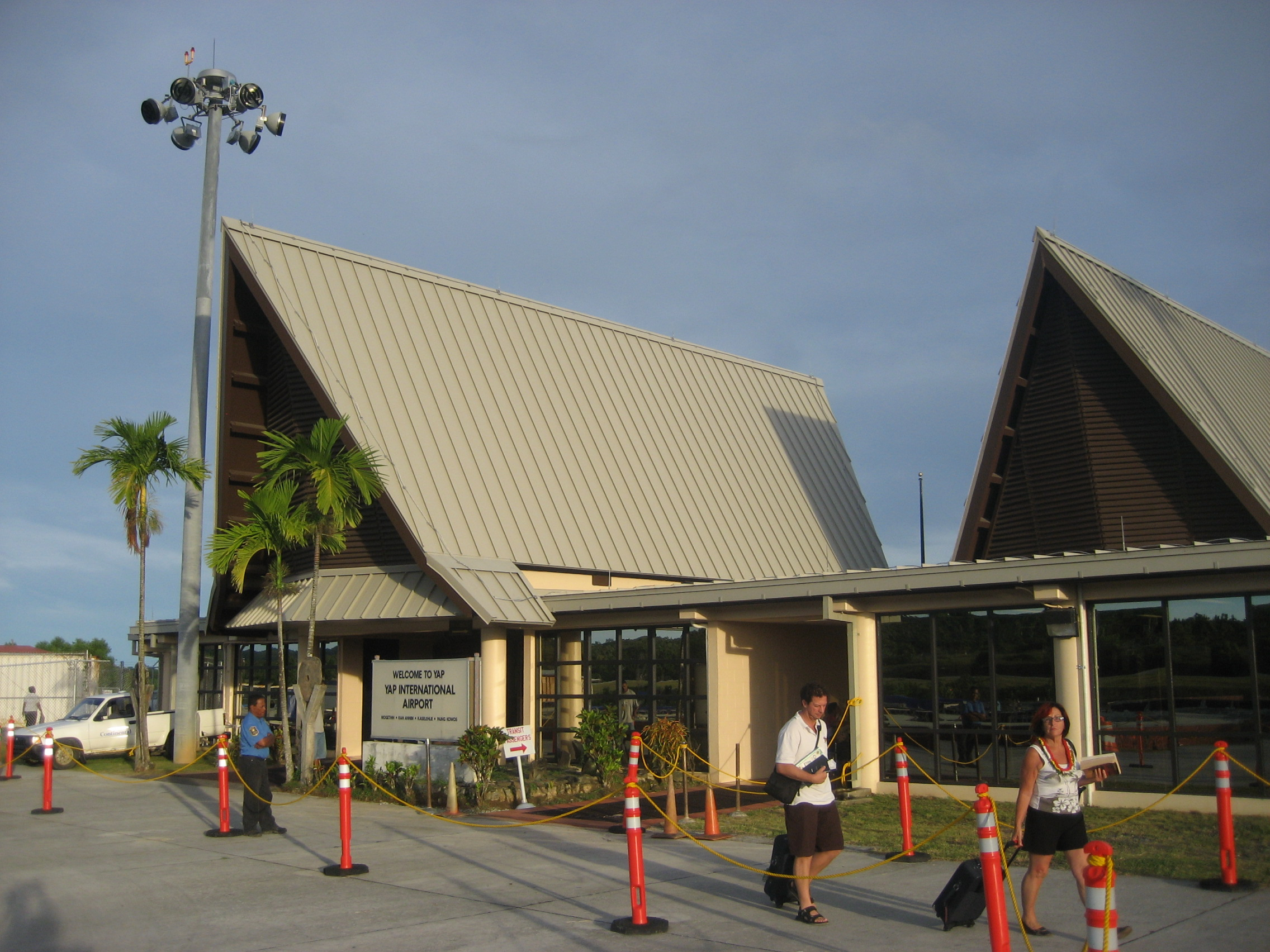 Yap Airport